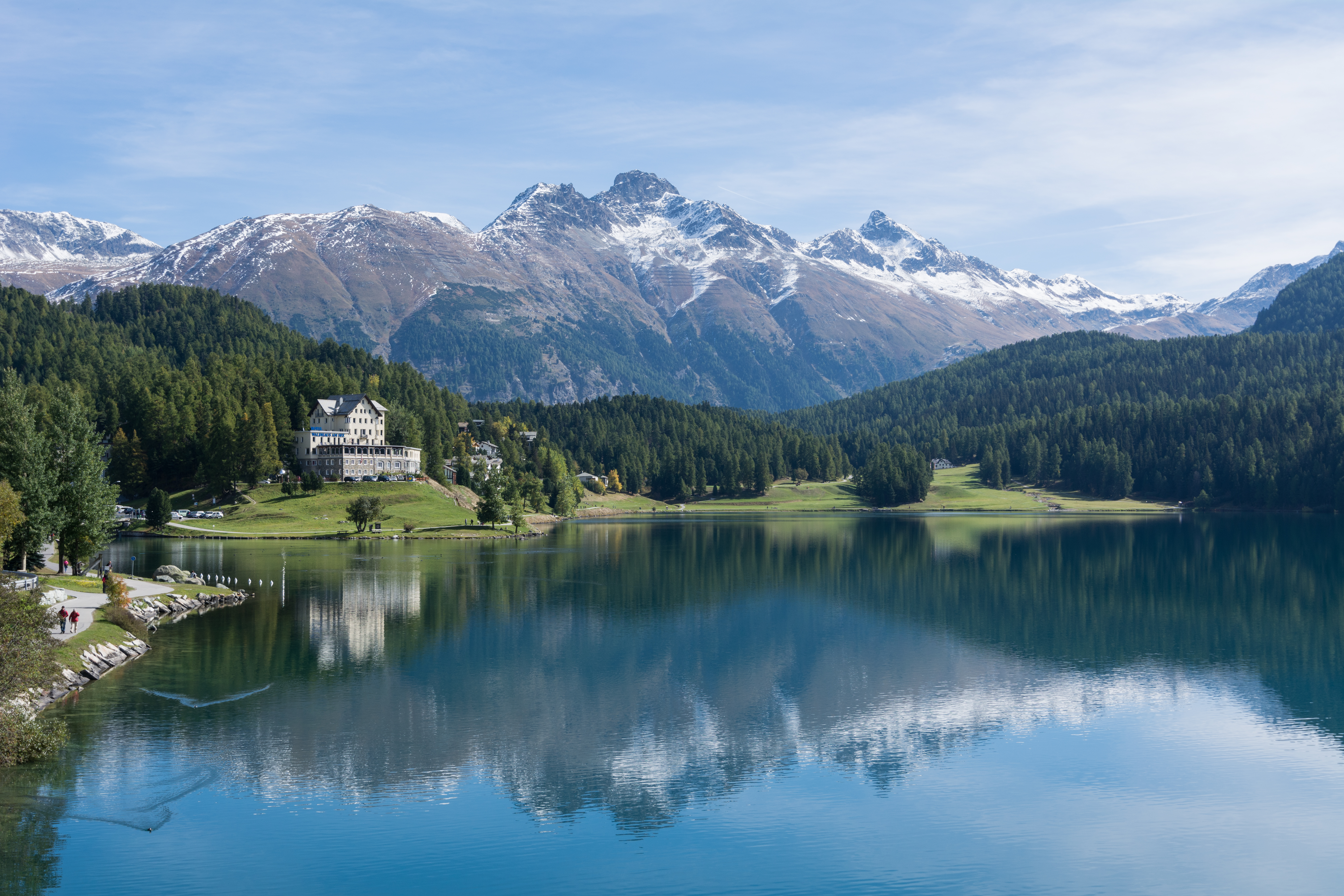 Lake St. Moritz is located at a height of 1768 m in the Upper Engadin, Switzerland. The river Inn flows through this lake.